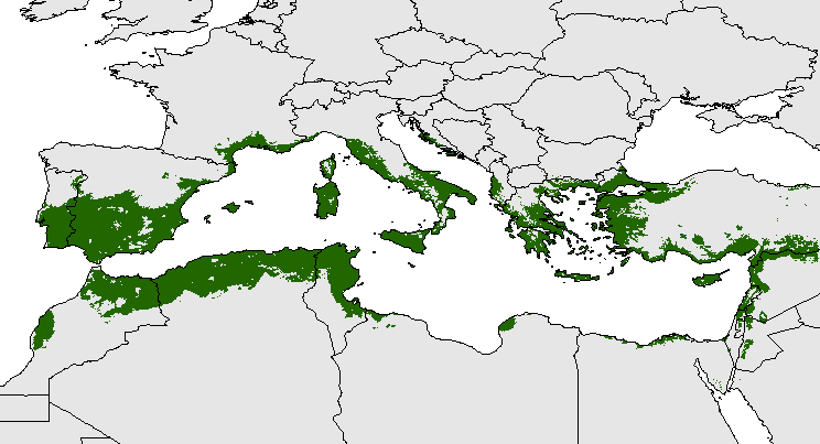 Potential distribution of the olive tree in the Mediterranean Basin (Oteros, 2014).